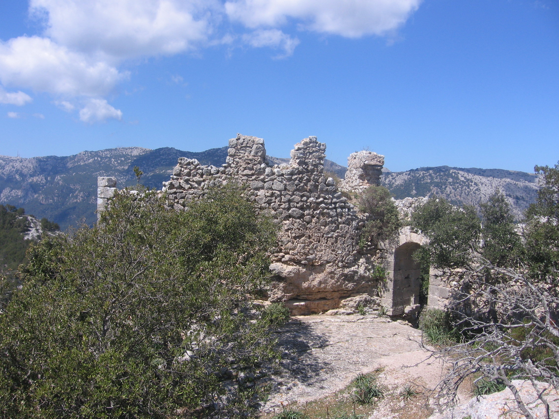 Castell d'Alaró. Alaró. Mallorca.